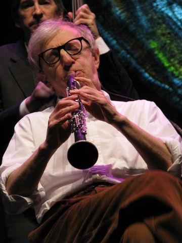 Woody Allen (born Allan Stewart Konigsberg; December 1, 1935) is an American film director, writer, actor, comedian, and playwright.